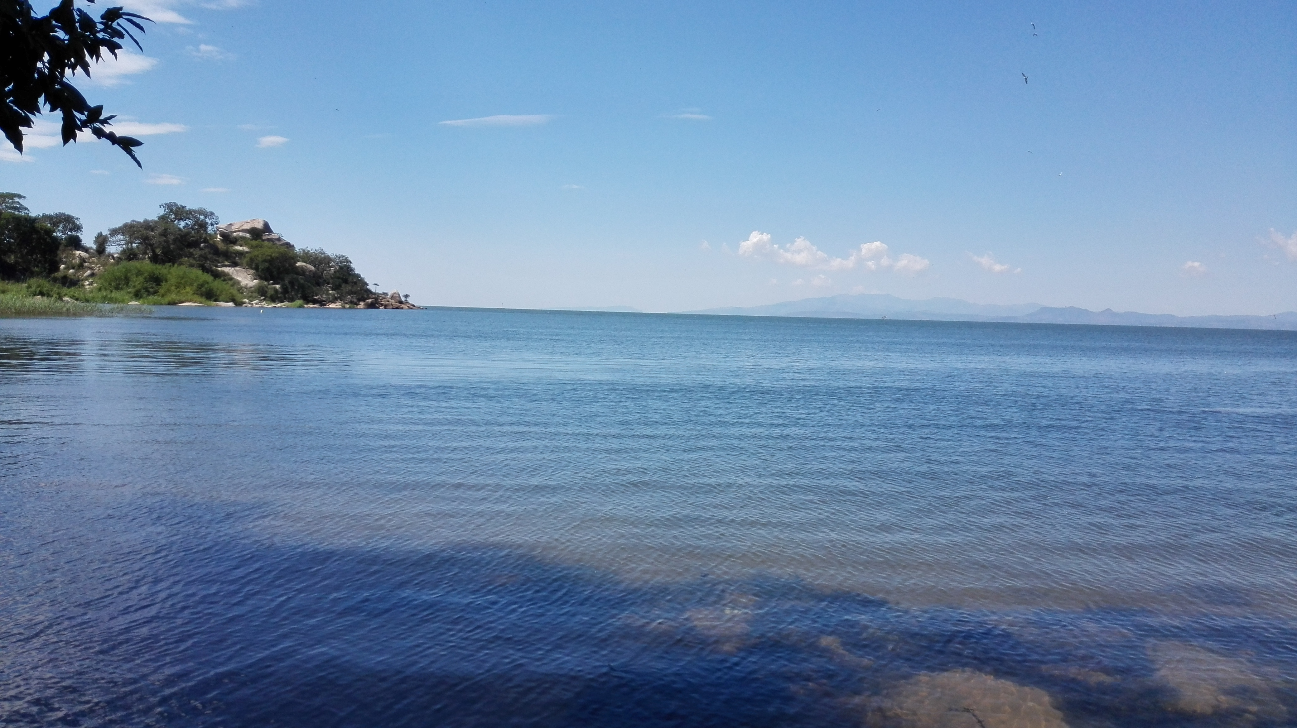 Mugabo beach is in Muhuru Bay ward, Migori County.I loved the scenery of the beautiful lake and took the photo using my phone. This is an image of "African people at work" from Kenya